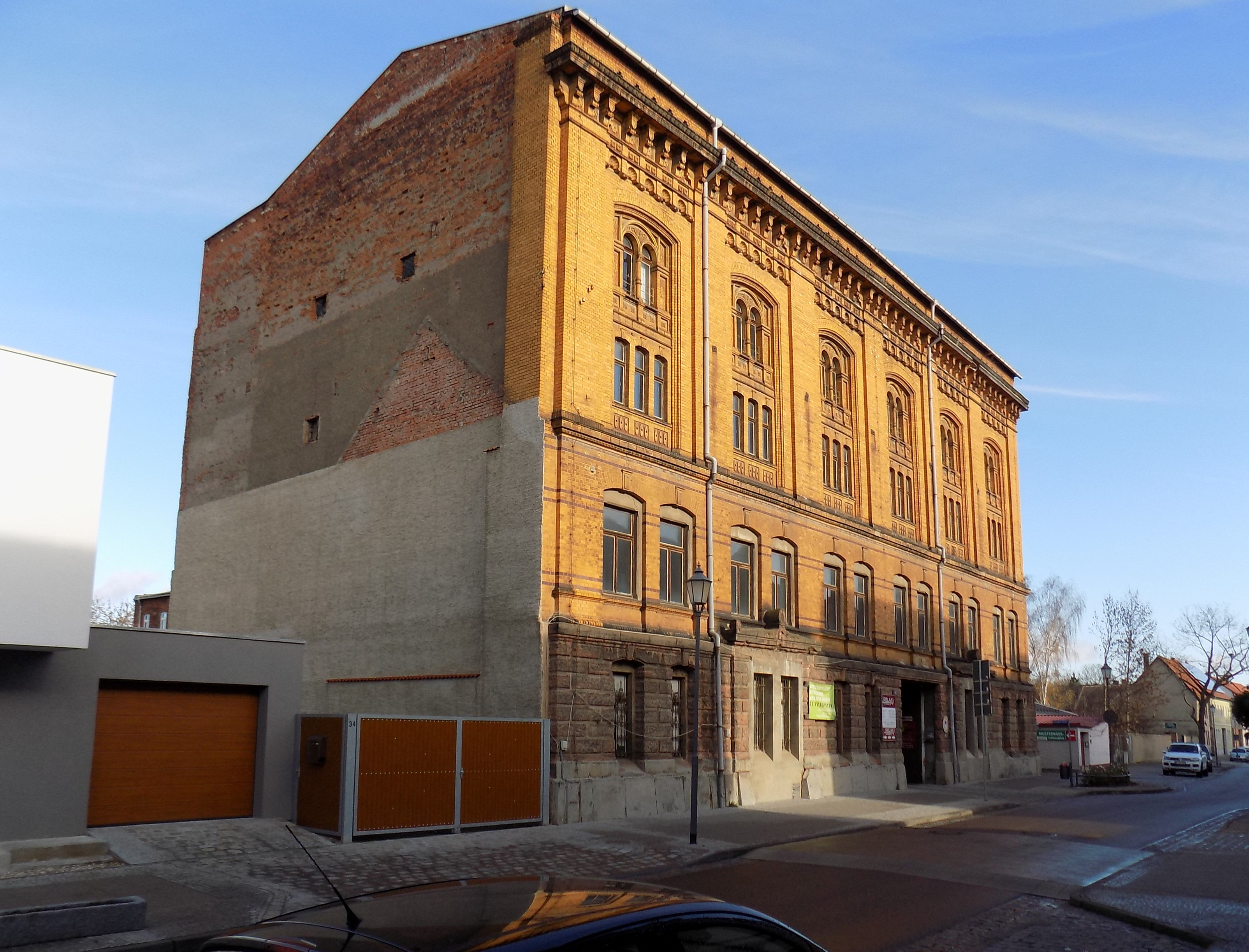 No. 36, Neumarkt in Merseburg (district: Saalekreis, Saxony-Anhalt)